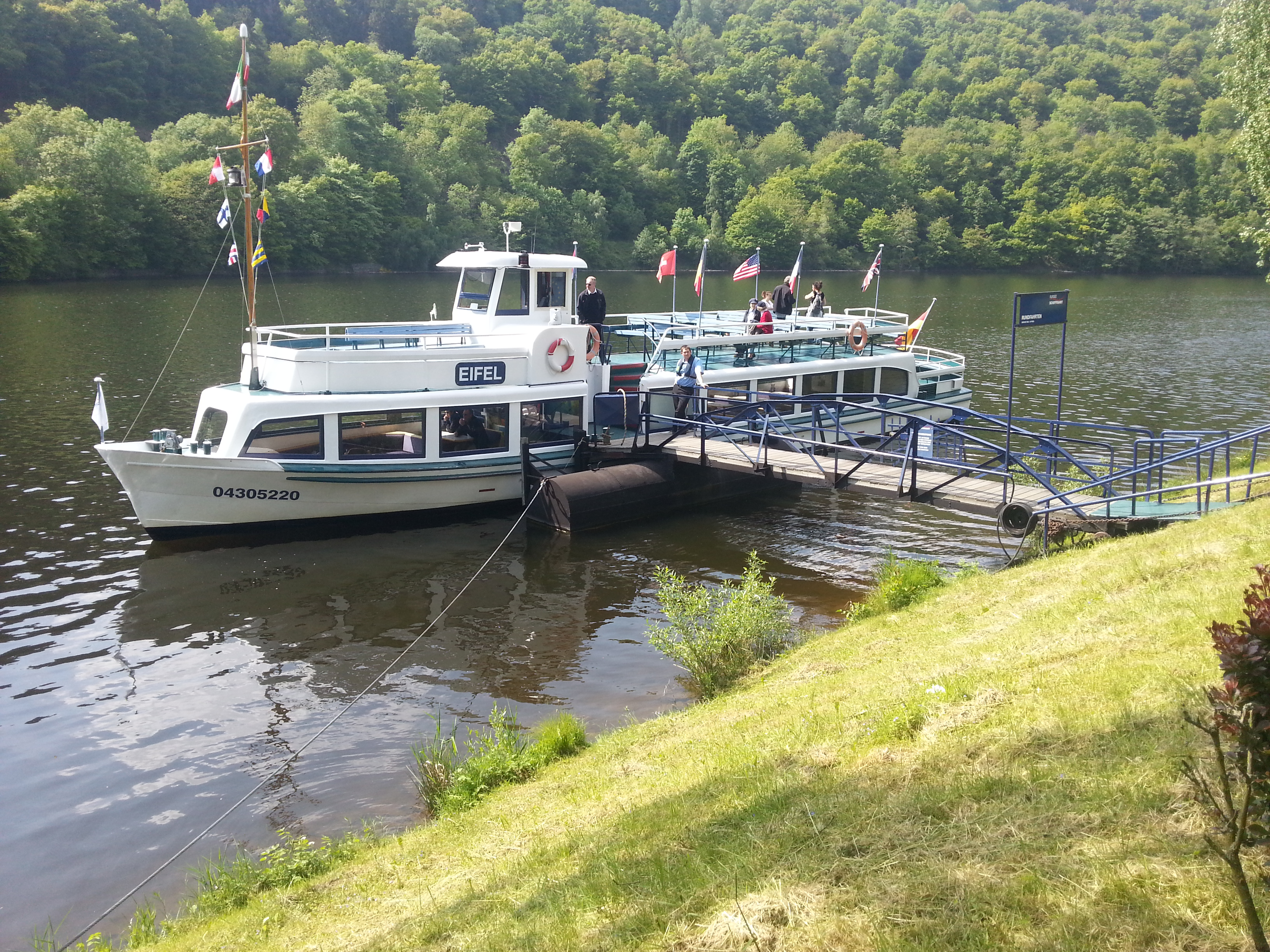 The passenger ship Eifel of the Rurseeschifffahrt in Einruhr.